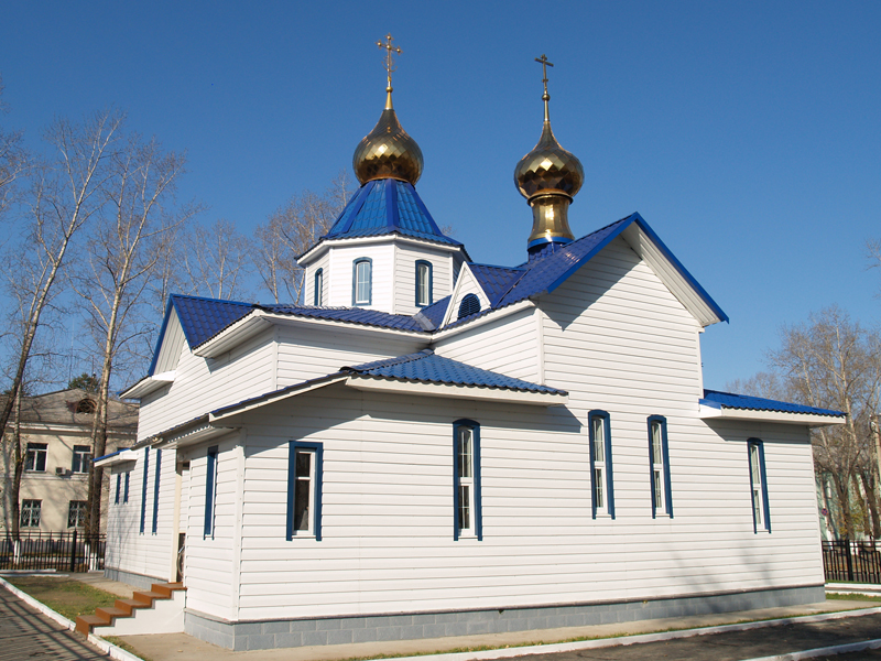 Church of Prophet Elijah in Amurzet